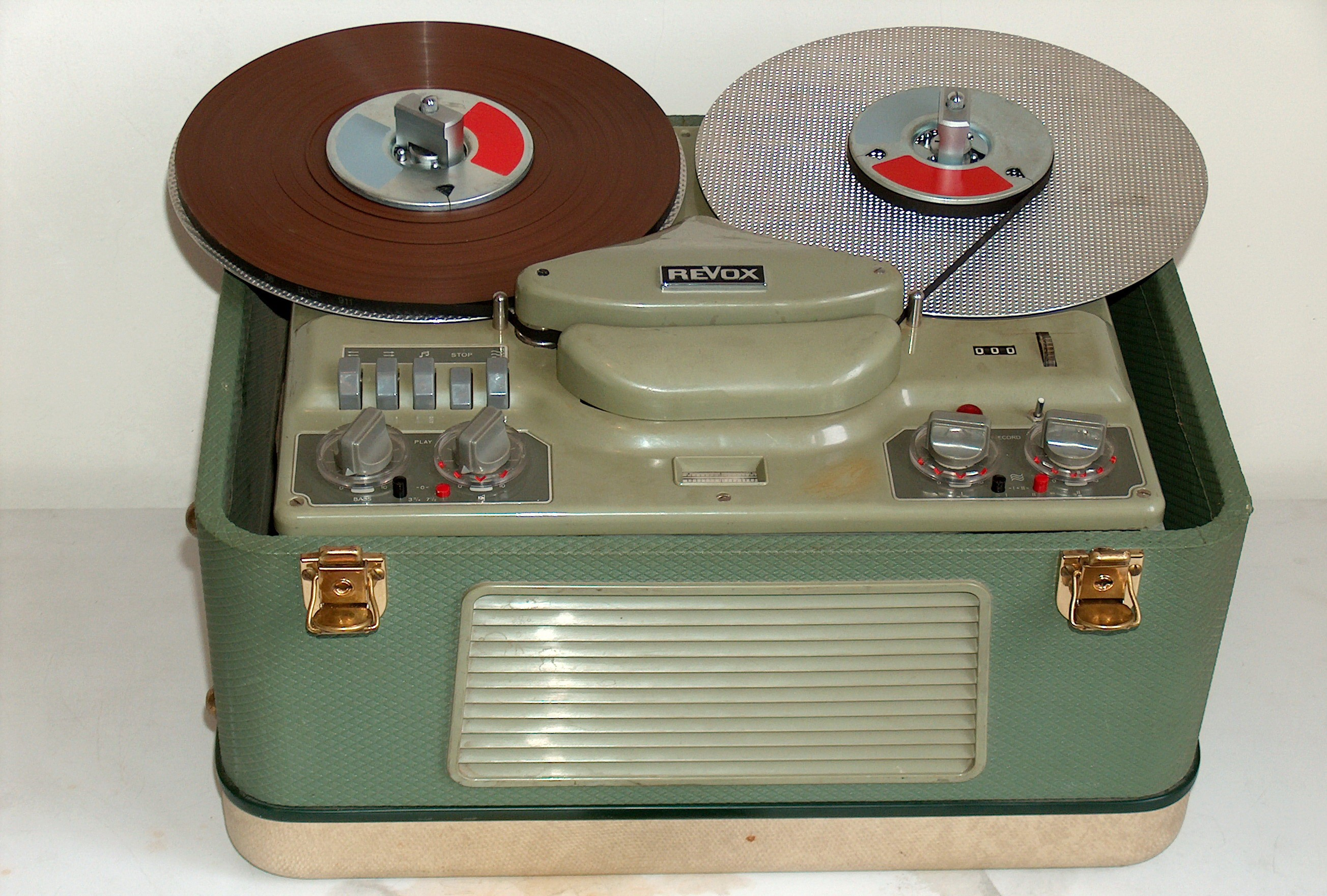 Tape recorder Studer Revox. Now it is part of collection in Museum of Science and Technology Belgrade.